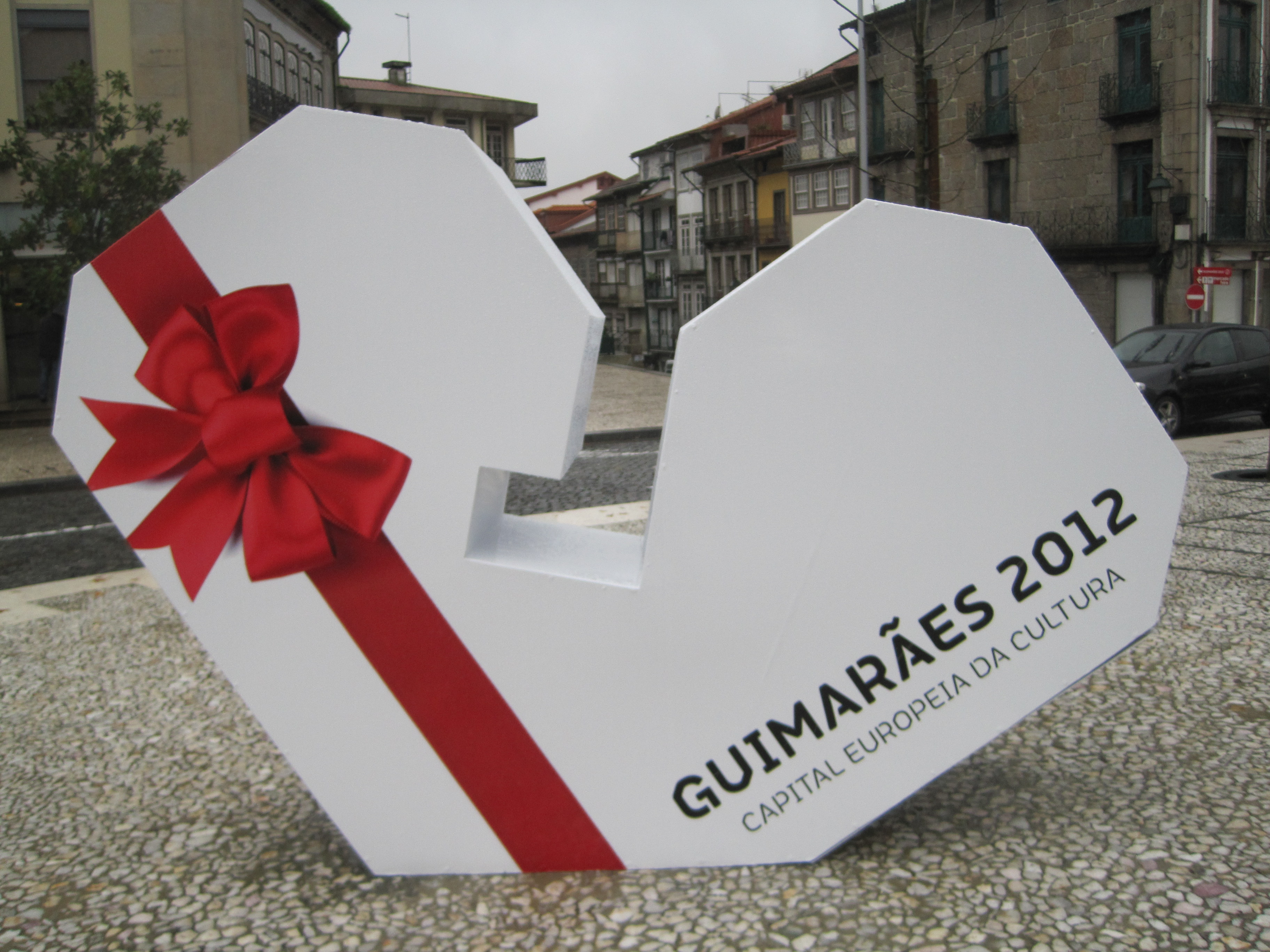 Logo of European Capital of Culture, Guimarães, Portugal check usage